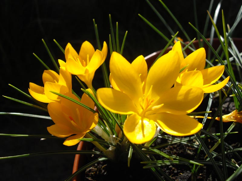 Crocus ancyrensis